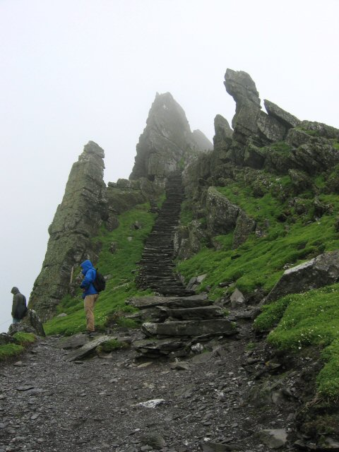 Path to Christ's Saddle, Skellig Michael This is the steep path that leads up to Christ's Saddle. (The upper section of the path, from there to the monastery is shown on 2560.)